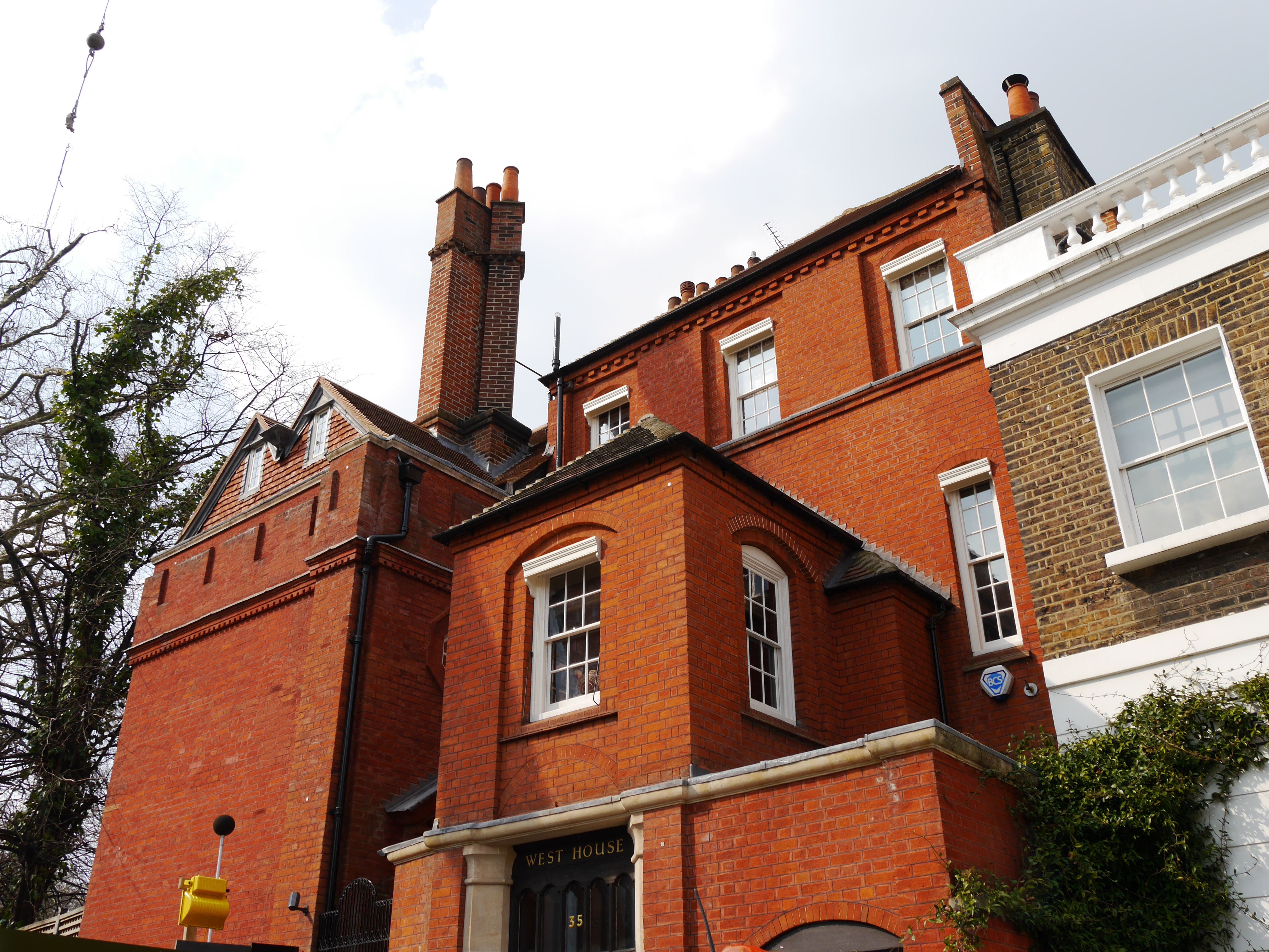 West House, Chelsea Wikidata has entry Q17552349 with data related to this building.